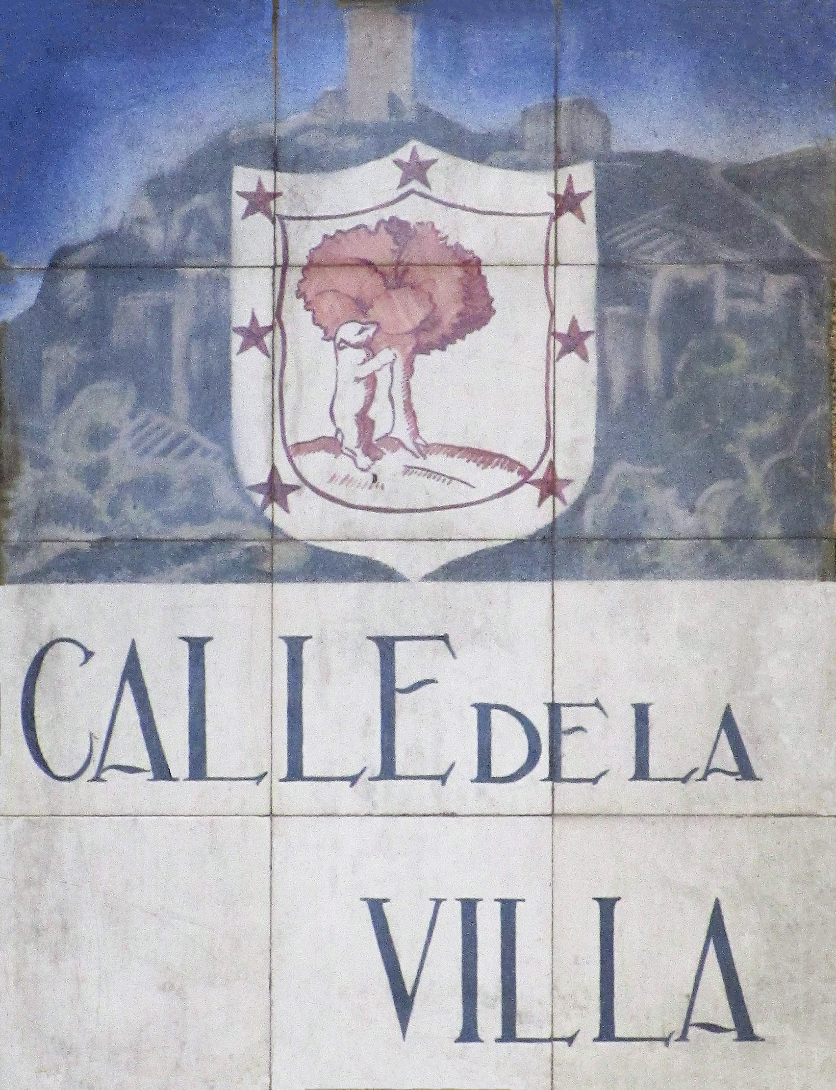 Street sign of Calle de la Villa in Madrid (Spain).